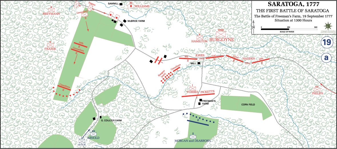 First Battle of Saratoga 1300 Hours